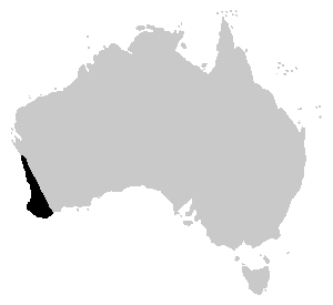 Distribution of the Motorbike Frog (Litoria moorei).